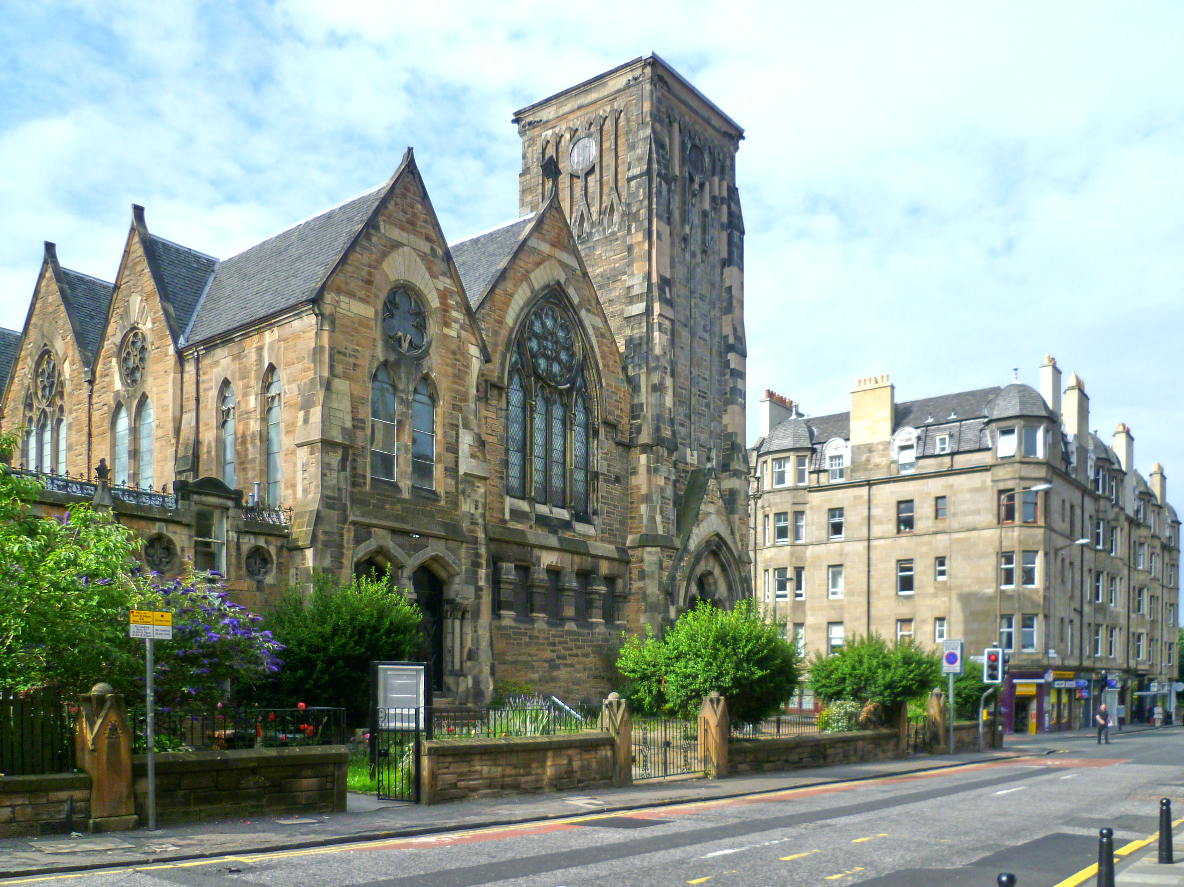 Former St. Oswald's Parish Church by F T Pilkington